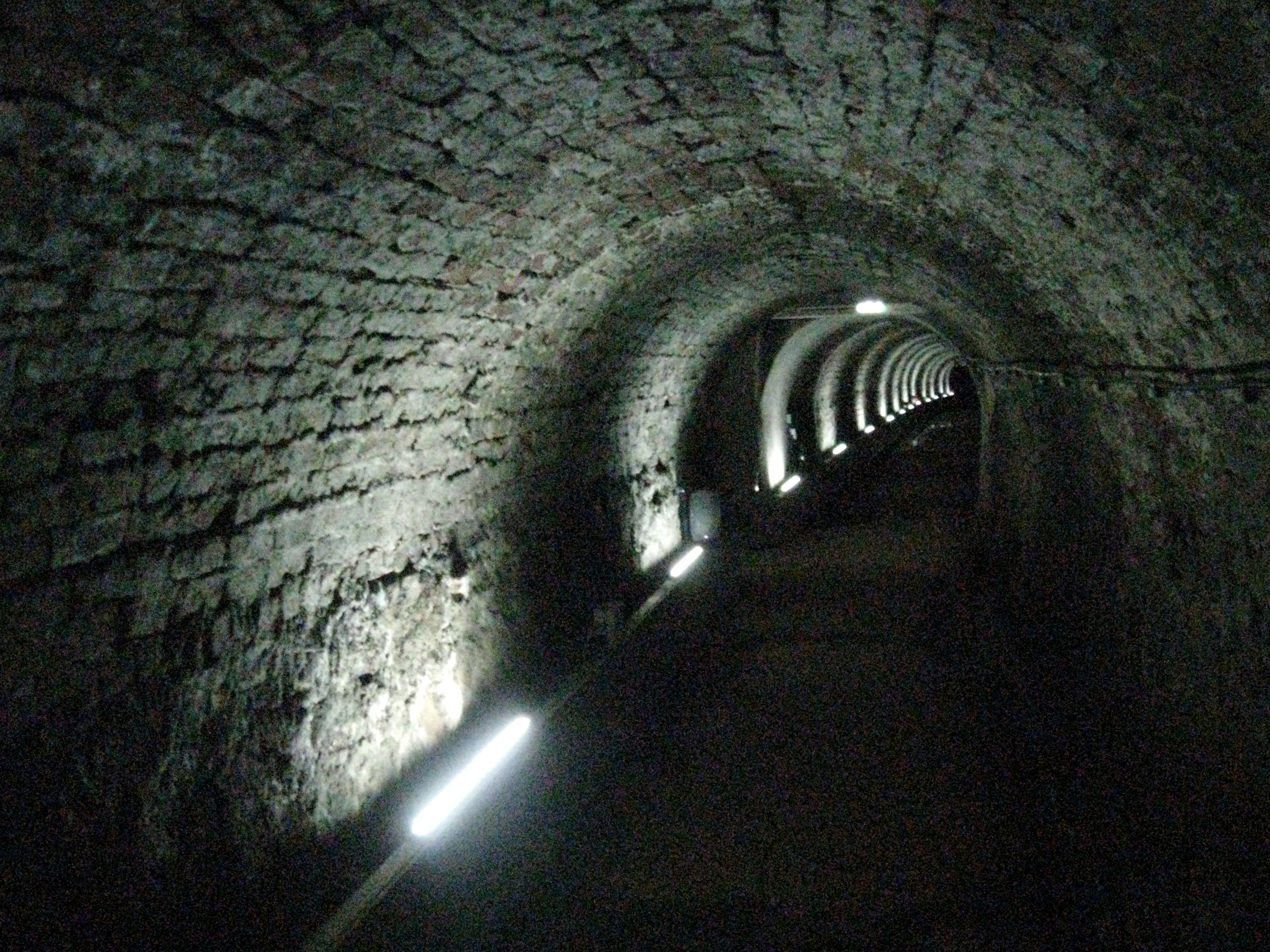 A lit section of the Victoria Tunnel in Newcastle upon Tyne, photographed during a public tour. A sloping passage to the Ouse Street entrance joins from the left where the light on the ceiling is. This photo looks towards the dead end that used to lead down to the River Tyne. The rest of the tunnel is in the opposite direction, heading towards Spital Tongues, and is mostly unlit.